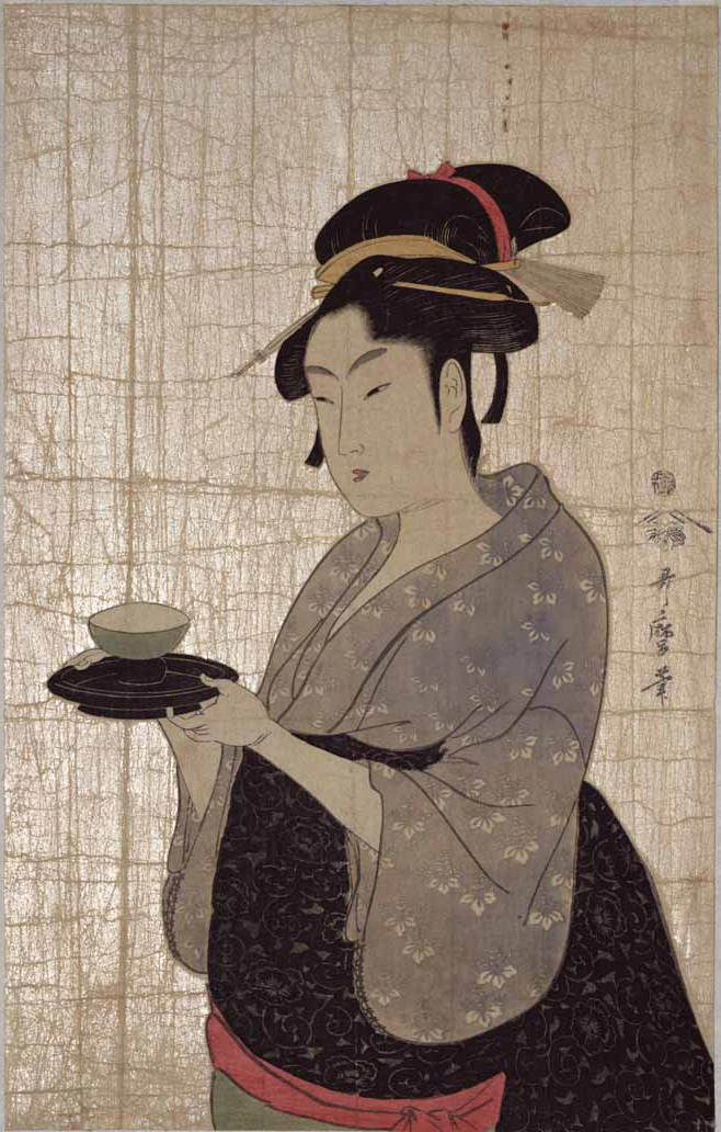 Full-colour nishiki-e print by Japanese ukiyo-e artist Kitagawa Utamaro, with Kirazuri printing applied on the background with mica ink. Model holds tea cup as symbol of her occupation.